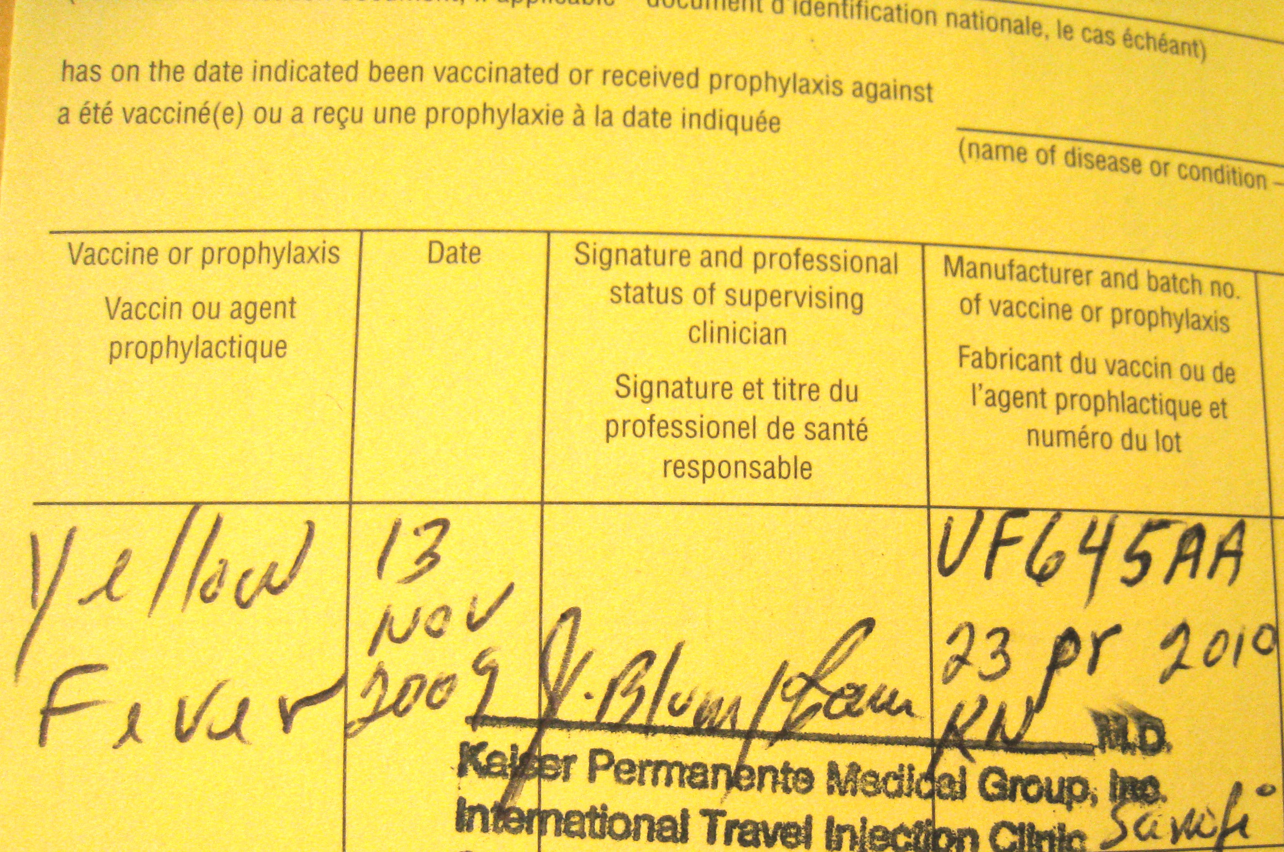 Detail of an International Certificate of Vaccination, showing a vaccination against yellow fever. Originally taken for the article Photo has been edited to remove personal information.